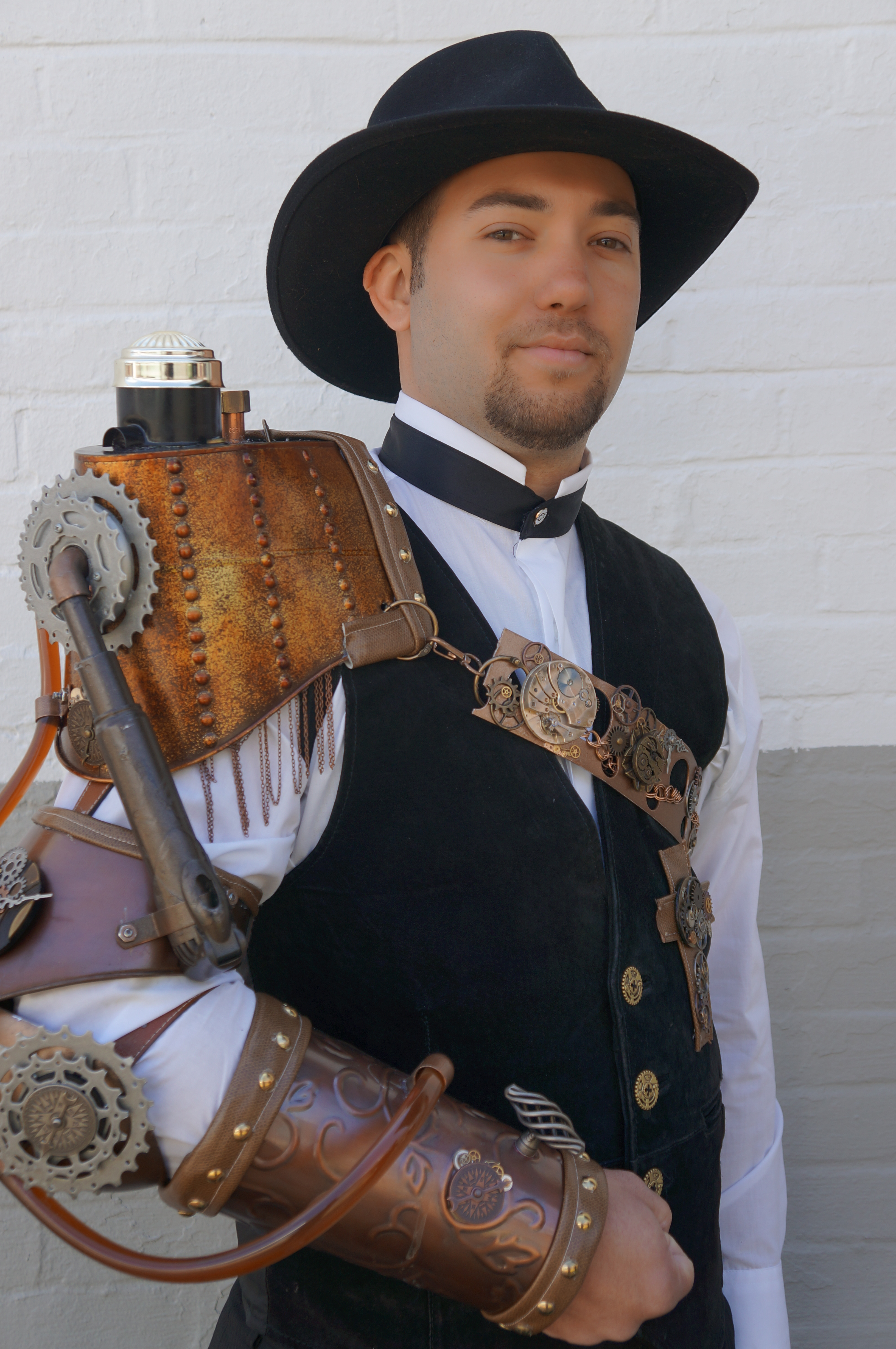 Man with steam punk style artificial right arm